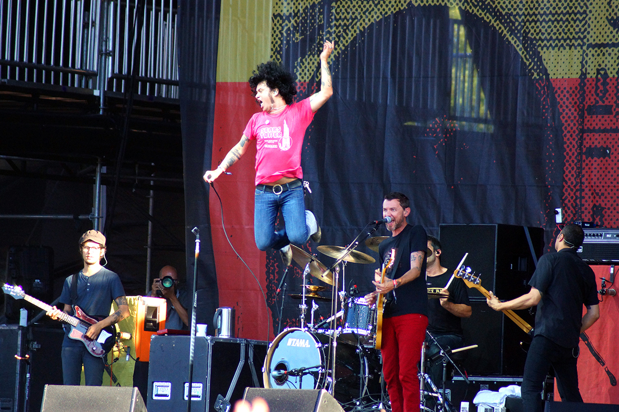 At the Drive-In, live at Lollapalooza in 2012. From left to right, Omar Rodríguez-López, Cedric Bixler-Zavala, Jim Ward, Tony Hajjar (partially obscured), and Paul Hinojos